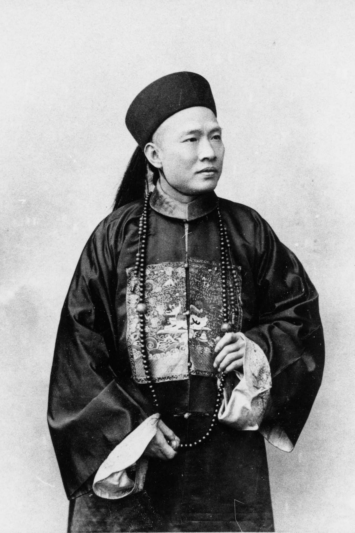 Chen Jitong (1851—1907), Chinese diplomat and writer